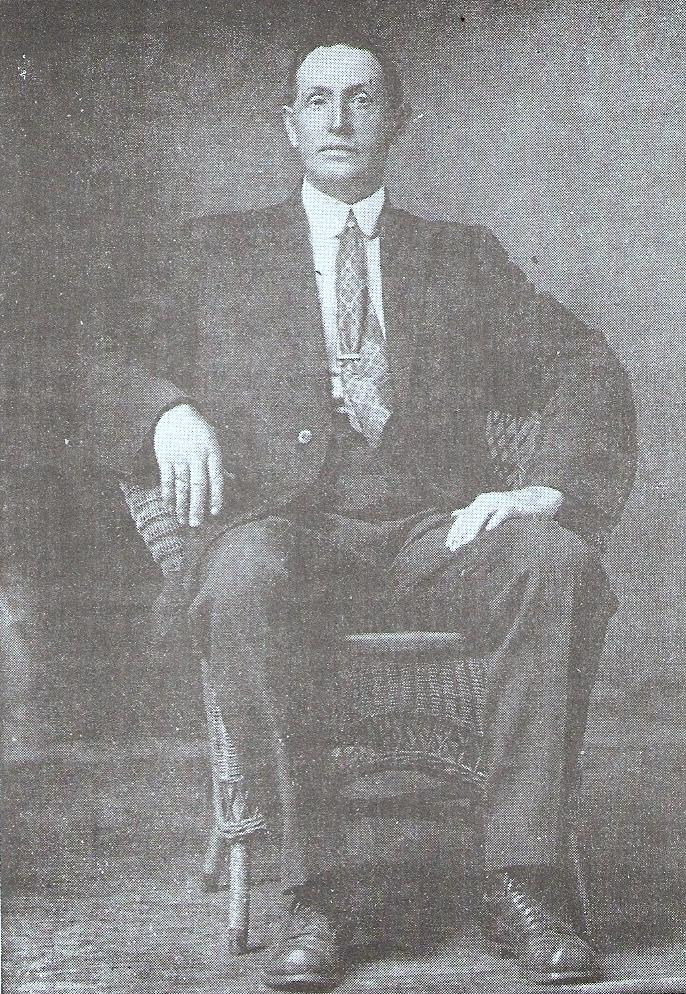 Deputy US Marshal W. Frank Jones (1872-?)